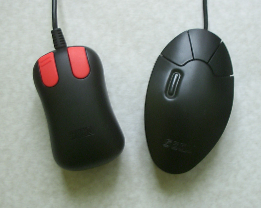 Sega Mouse and Sega Mega Mouse (both for the Sega Mega Drive/Sega Genesis